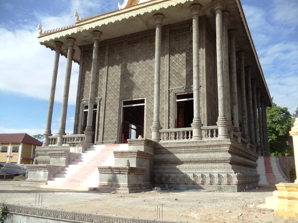 Wat Kratie Buddhist Temple Building, Mr.Men Sovann was Building this Buddhist Temple